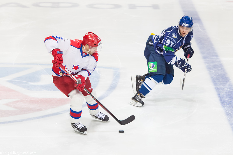 Amur Khabarovsk forward Nikita Gusev (in blue) and CSKA Moscow superstar Pavel Datsyuk (in white) during KHL game on November 30, 2012.